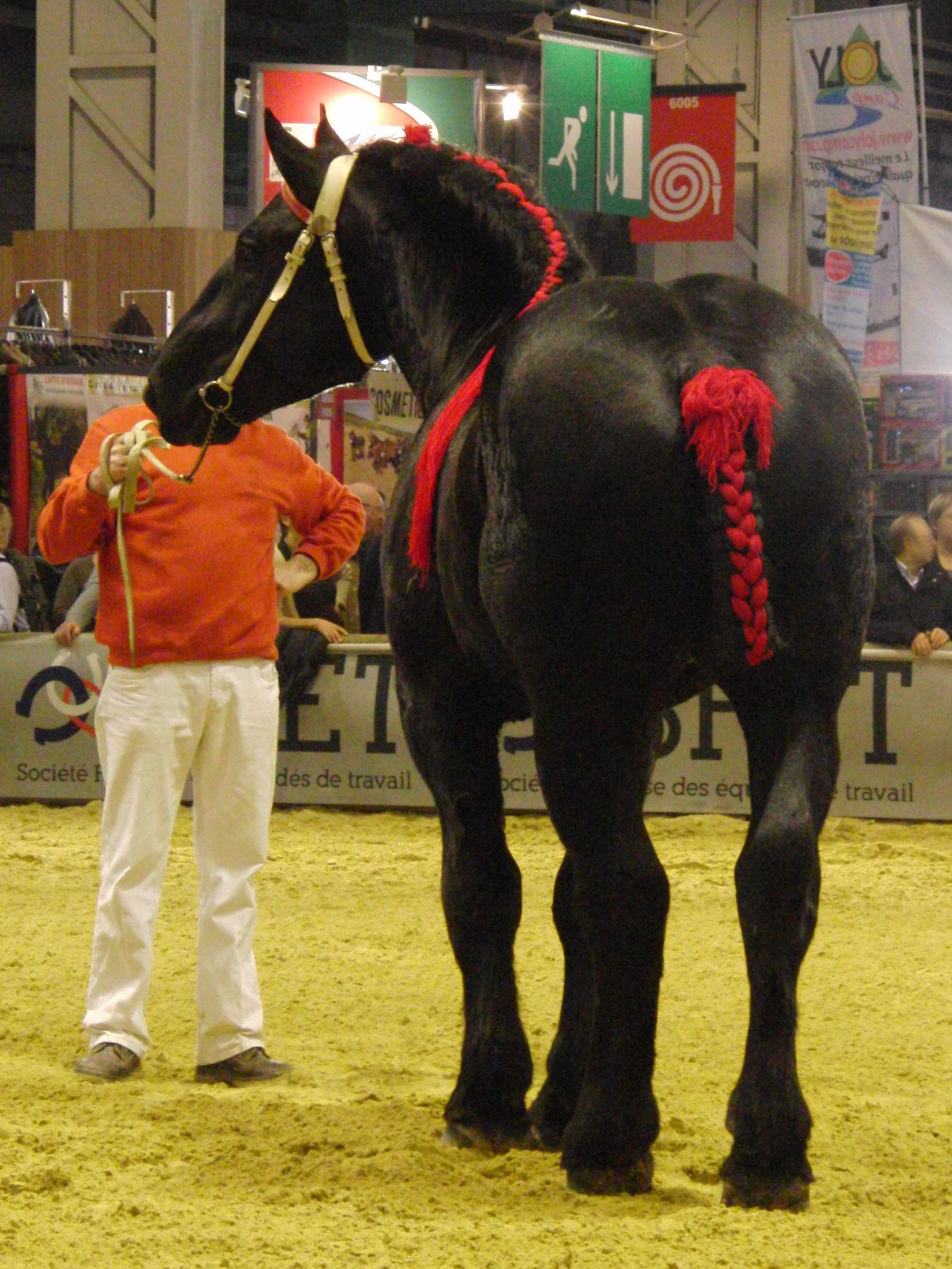 A black Percheron horse at the 2014 International Agriculture Show in Paris, France